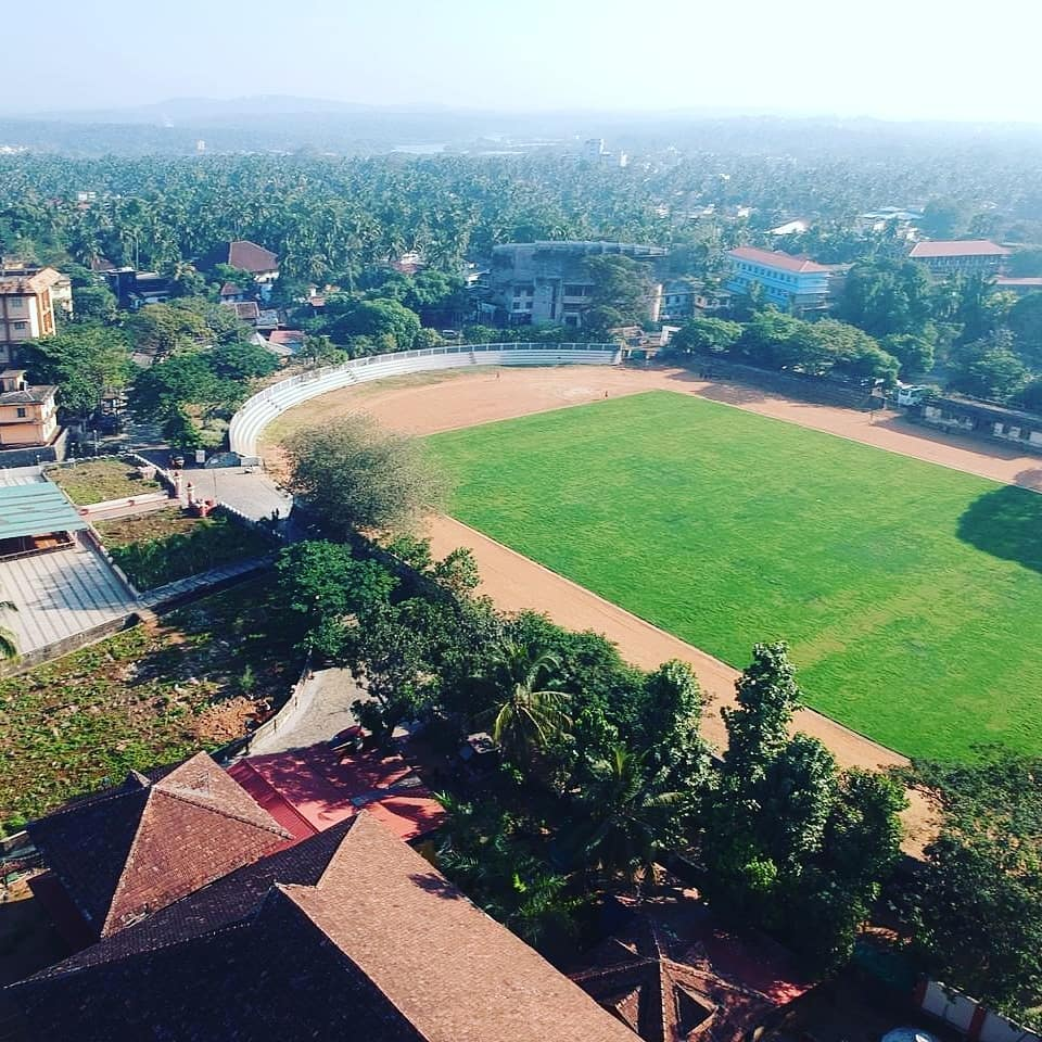 muncipal stadium